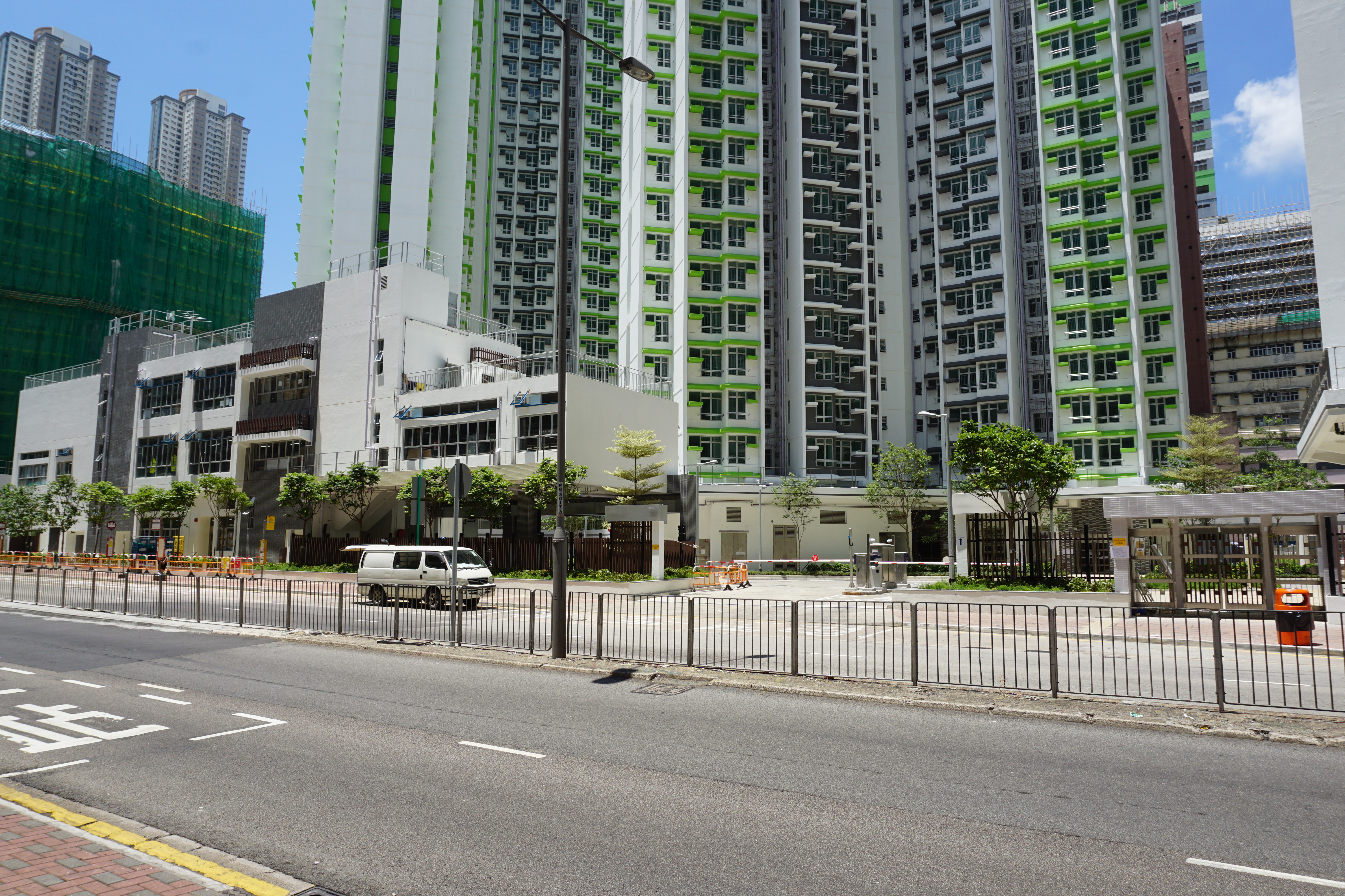 Sheung Chui Court in Tsuen Wan, Hong Kong.